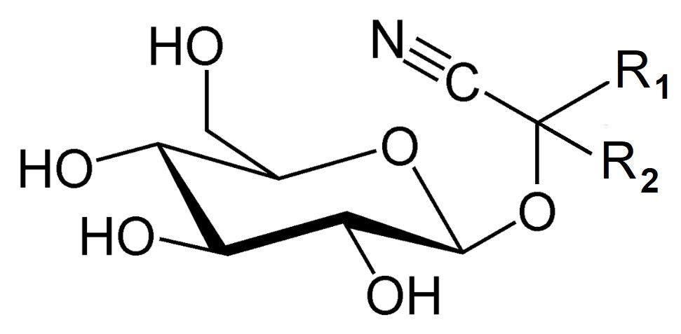 Cyanogenic glycoside general scheme